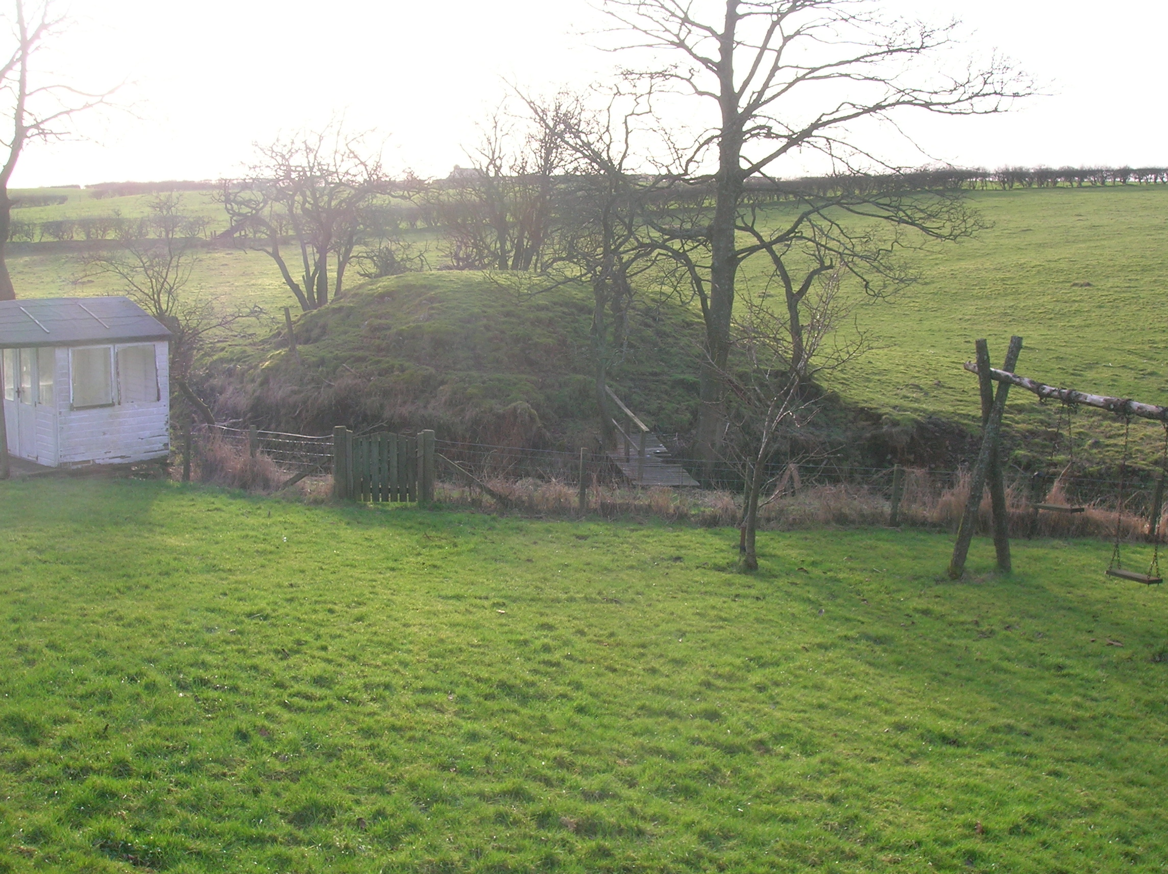 The Court Hill at Beith, North Ayrshire, Scotland.